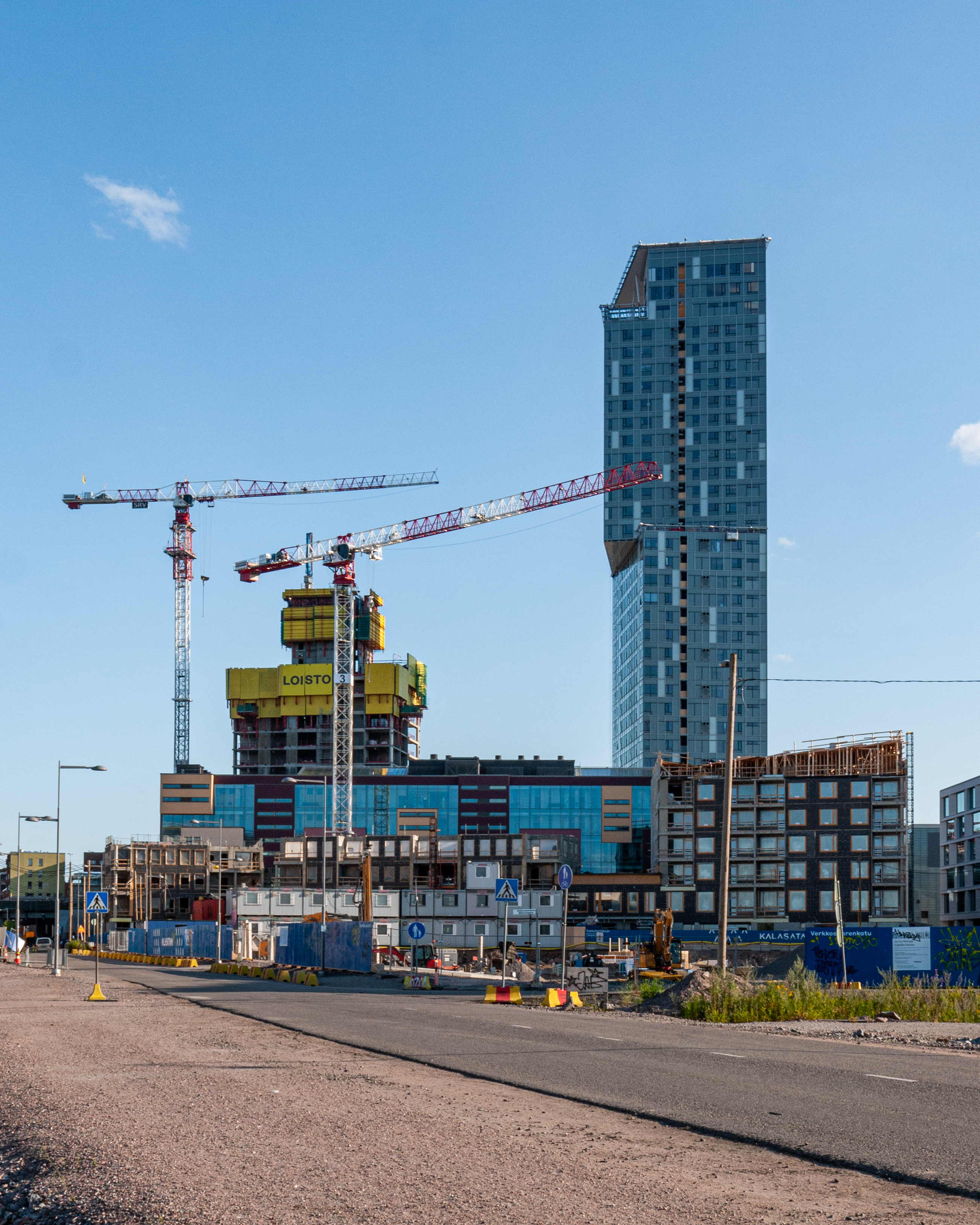 Majakka (mostly finished) and Loisto (under construction) apartment buildings in Kalasatama, Helsinki, Finland.